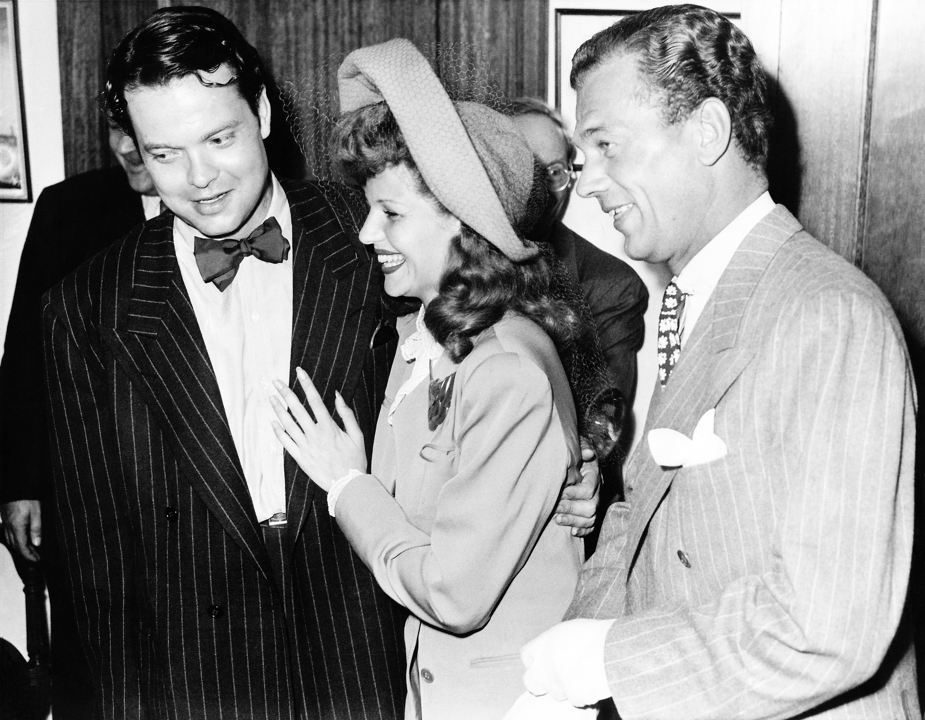 Photograph of the wedding of Orson Welles and Rita Hayworth, with best man Joseph Cotten, in Santa Monica, California.